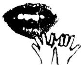 "The Mouth and Foot" logo